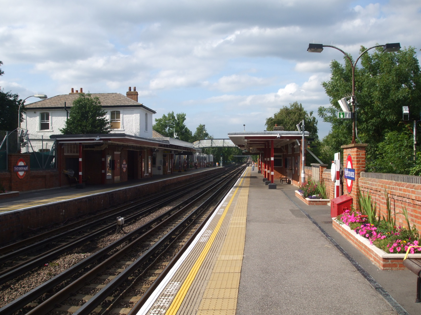 Theydon Bois tube station looking north (operationally eastbound) towards Epping